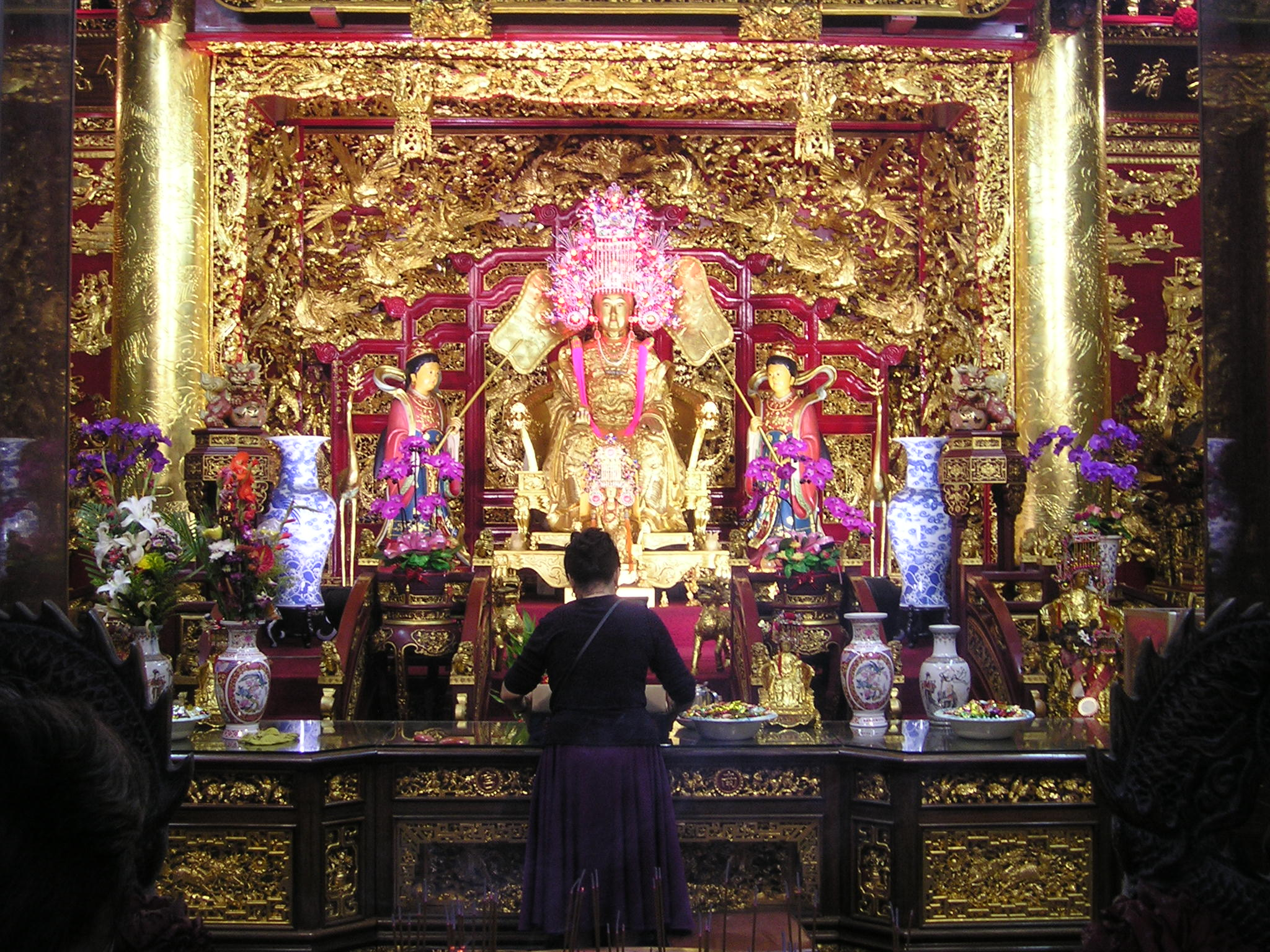 Golden Matsu Statue from Nantiangong, Yilan, Taiwan